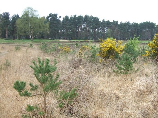 Chobham Common Where the rugged terrain of Chobham Common gives way to the pampered lawn of Sunningdale Golf Course